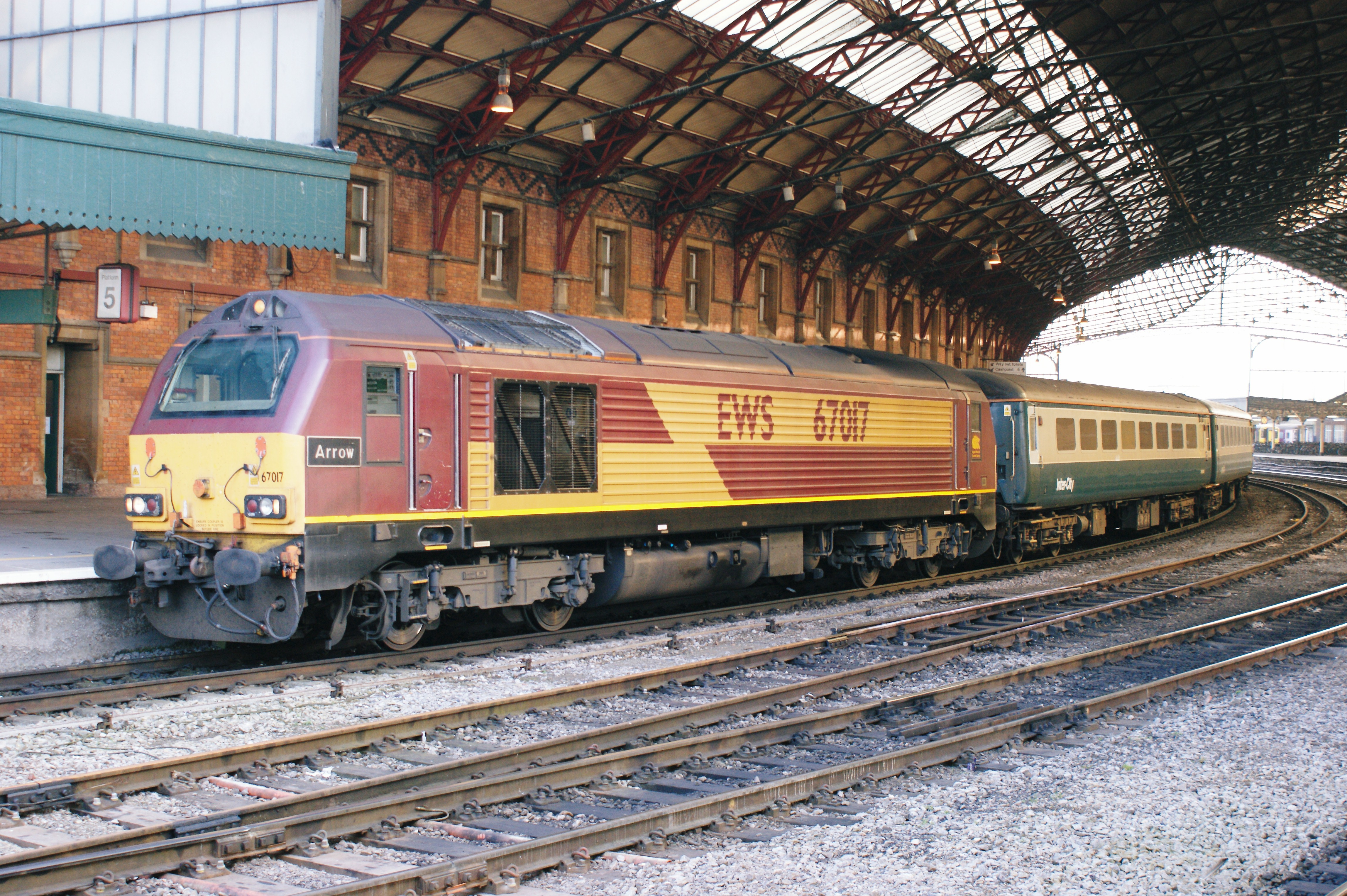 Alstom Class 67 3,200 hp Bo-Bo No.67 017 "Arrow" of DBS in EWS livery on hire to FGW at Bristol Temple Meads on a Taunton - Cardiff service, 04/09.